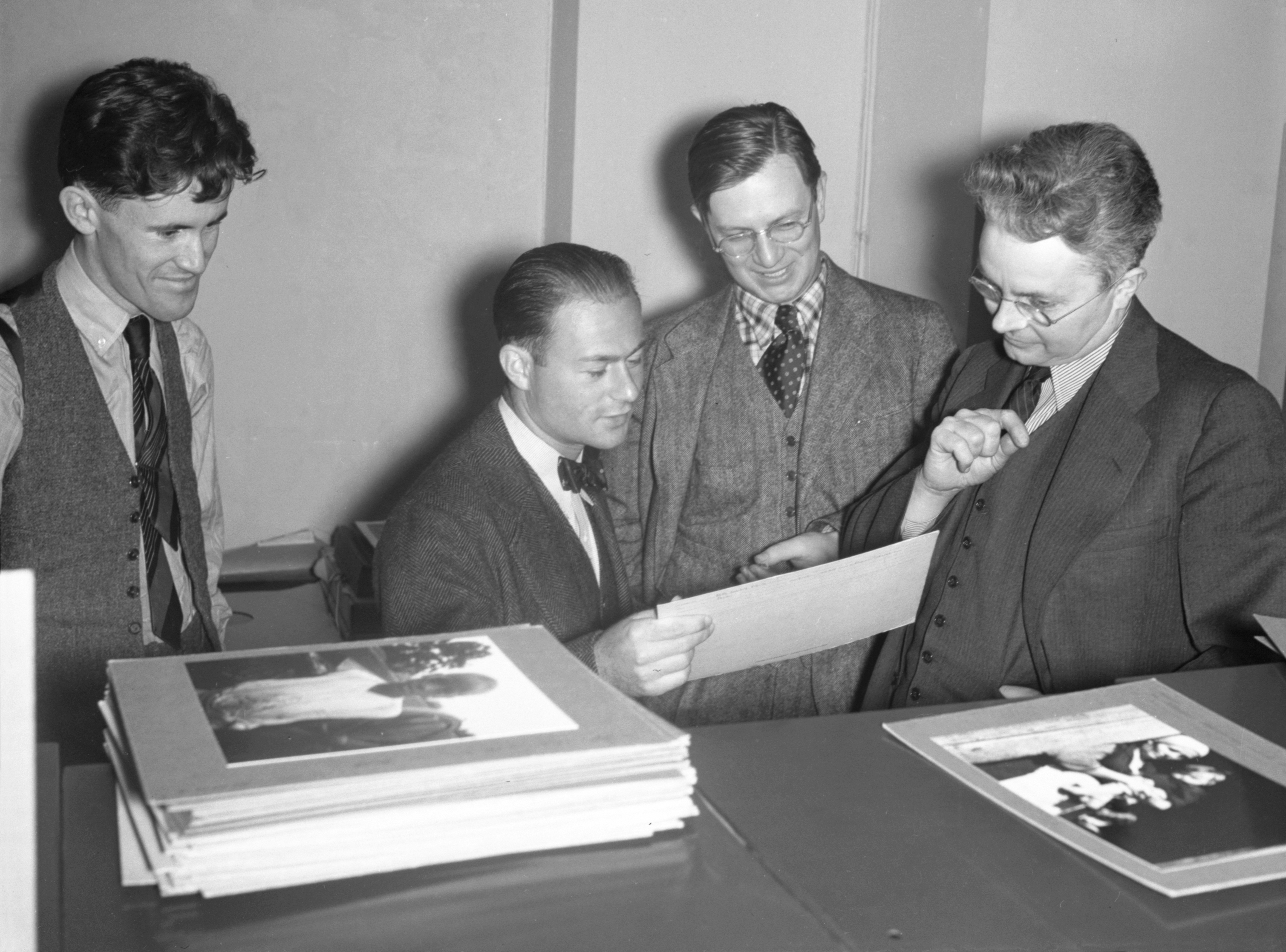 Photograph of Farm Security Administration photographers (left to right) John Vachon, Arthur Rothstein and Russell Lee with Roy Stryker (right), reviewing photographs.